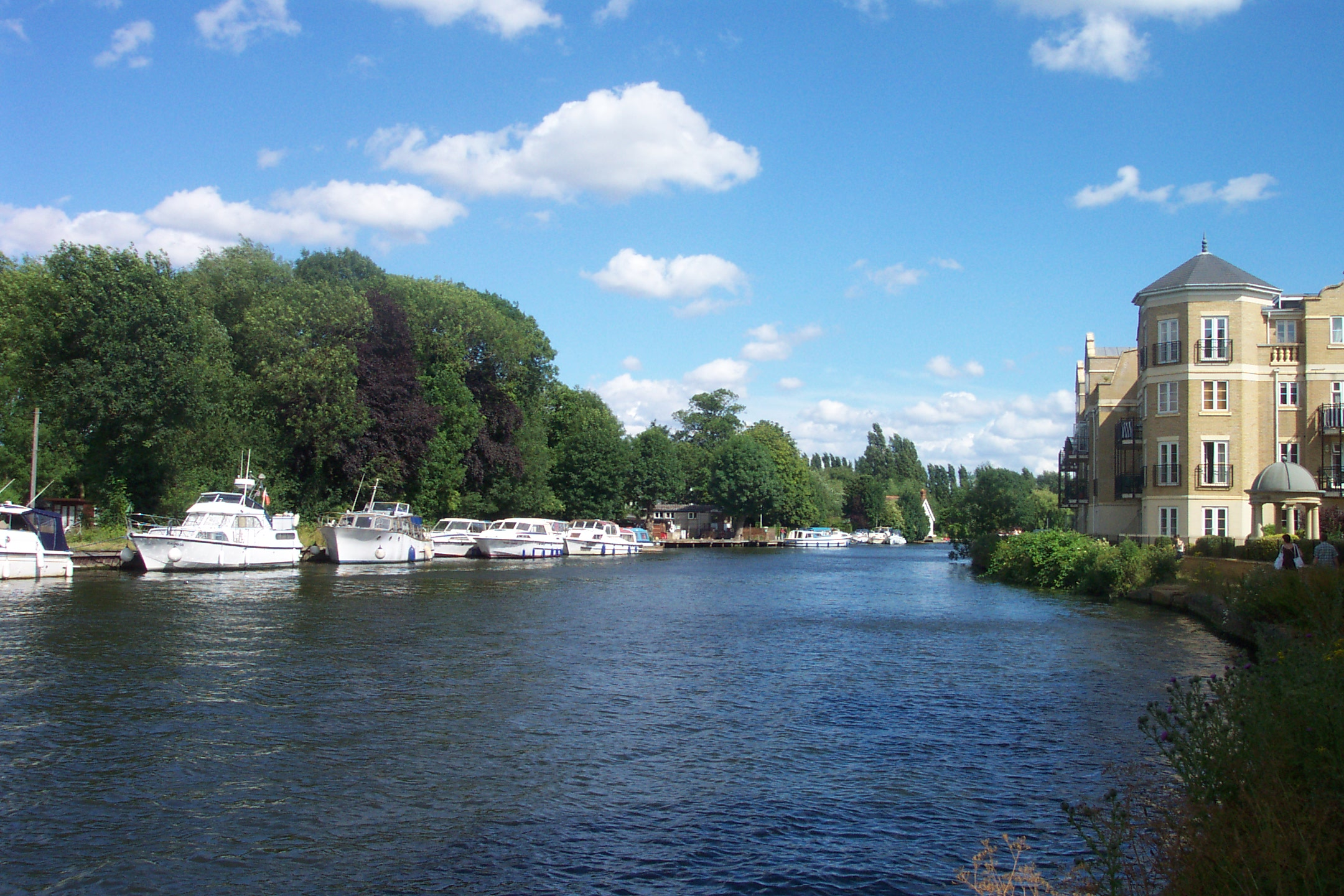 The southern side of Fry's Island (to left of photograph), in the River Thames in the English town of Reading. Photograph taken from the south bank of the river. For more information see the Wikipedia article Fry's Island'.